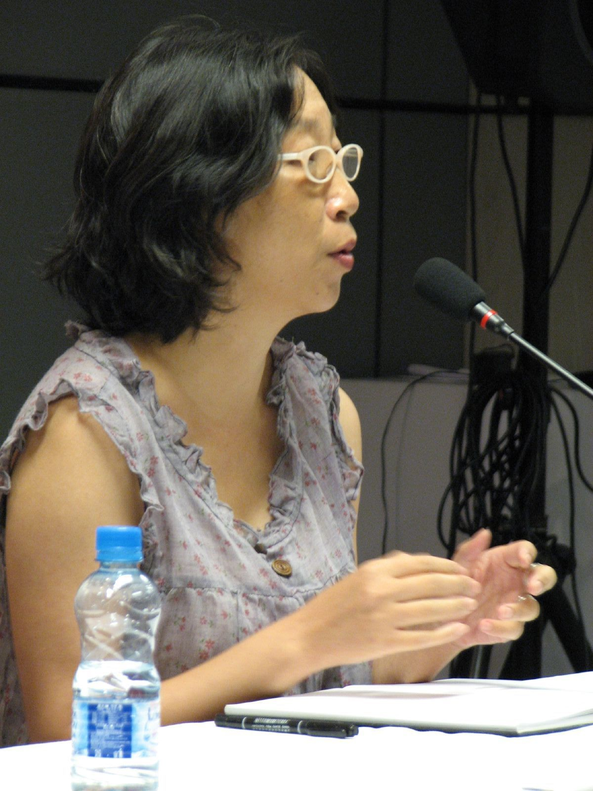 Chen Danyan, author, speaks at the Shanghai Book Fair 2008.